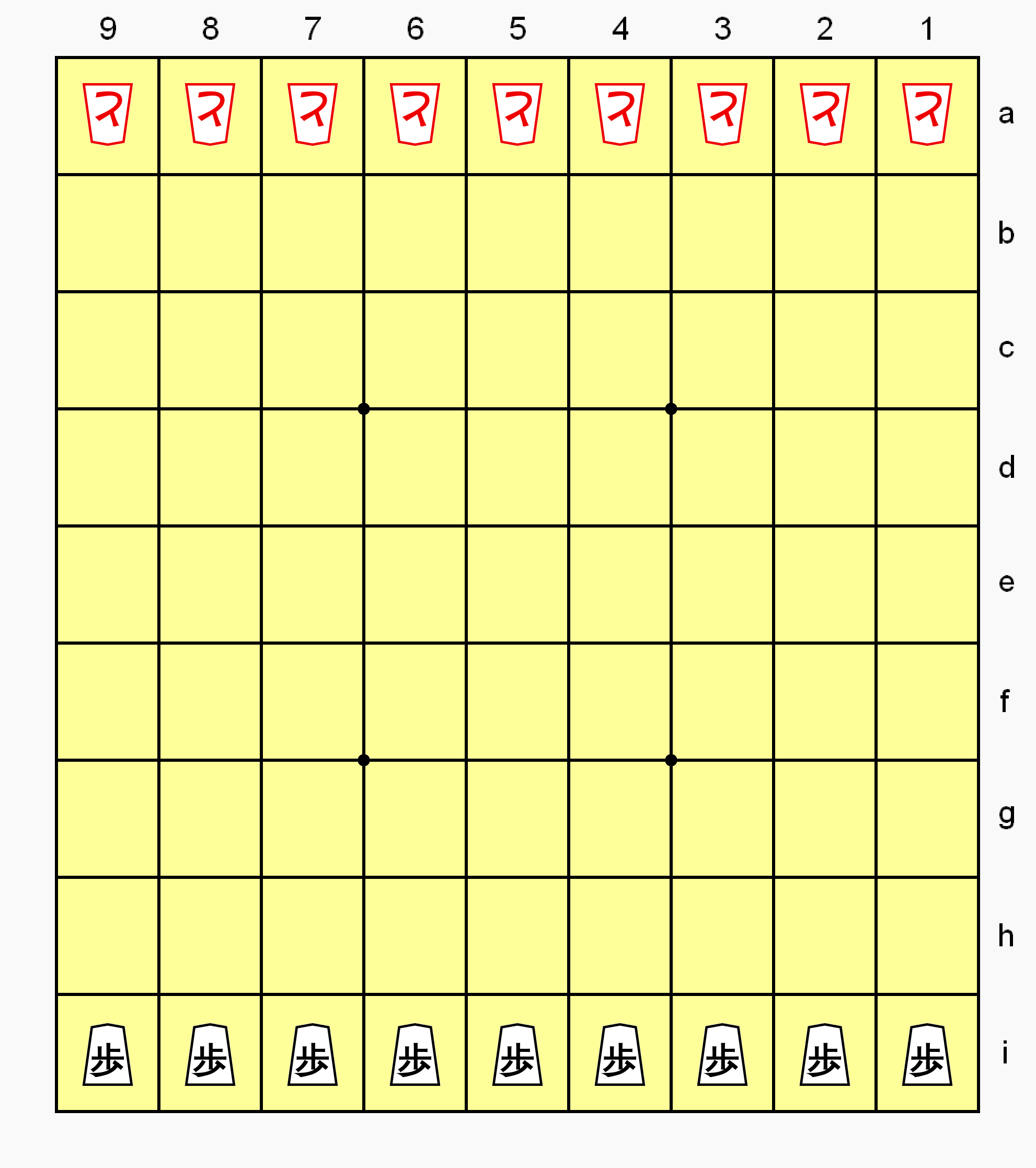 Hasami Shogi starting position. Unpromoted pawns by User:Perey (Shogi.svg), modified. Tokens by user Tamago915. Done in MS PAINT.